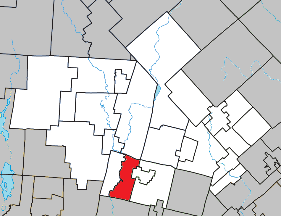 Location of Arundel, Quebec within Les Laurentides Regional County Municipality.